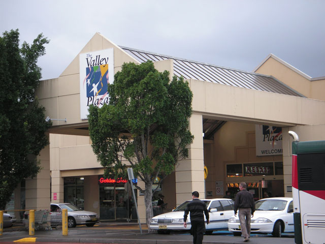 The Valley Plaza shopping centre in Green Valley, NSW